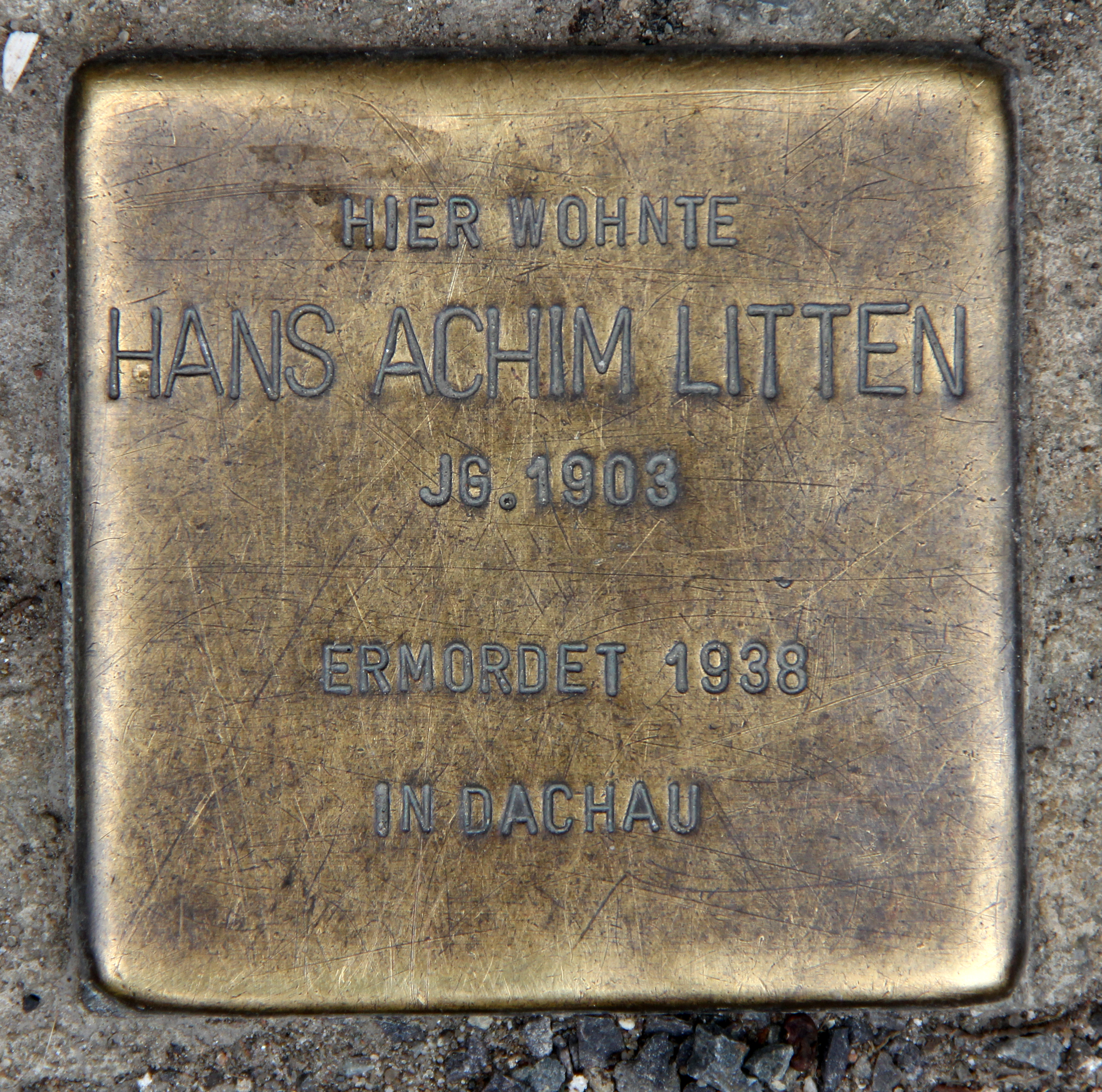 "Stolperstein" (stumbling block), Hans Achim Litten, Zolastraße 1a, Berlin-Mitte, Germany